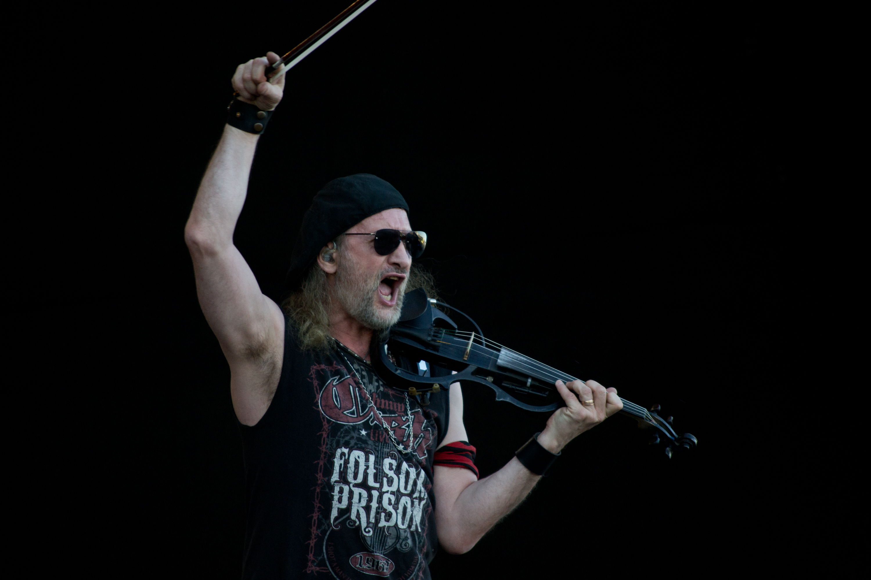 Gogol Bordello in Rock in Rio Madrid 2012.